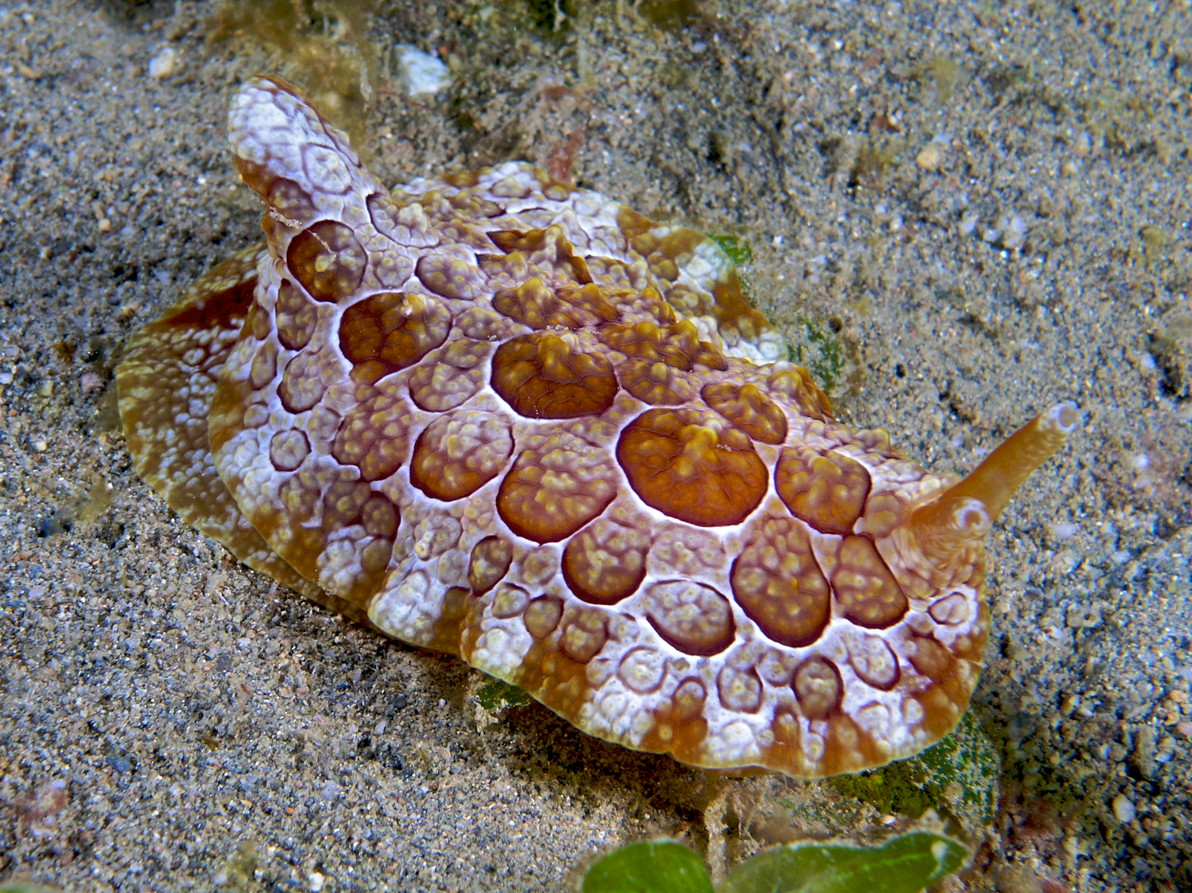 Pleurobranchus forskali (Sidegill slug)